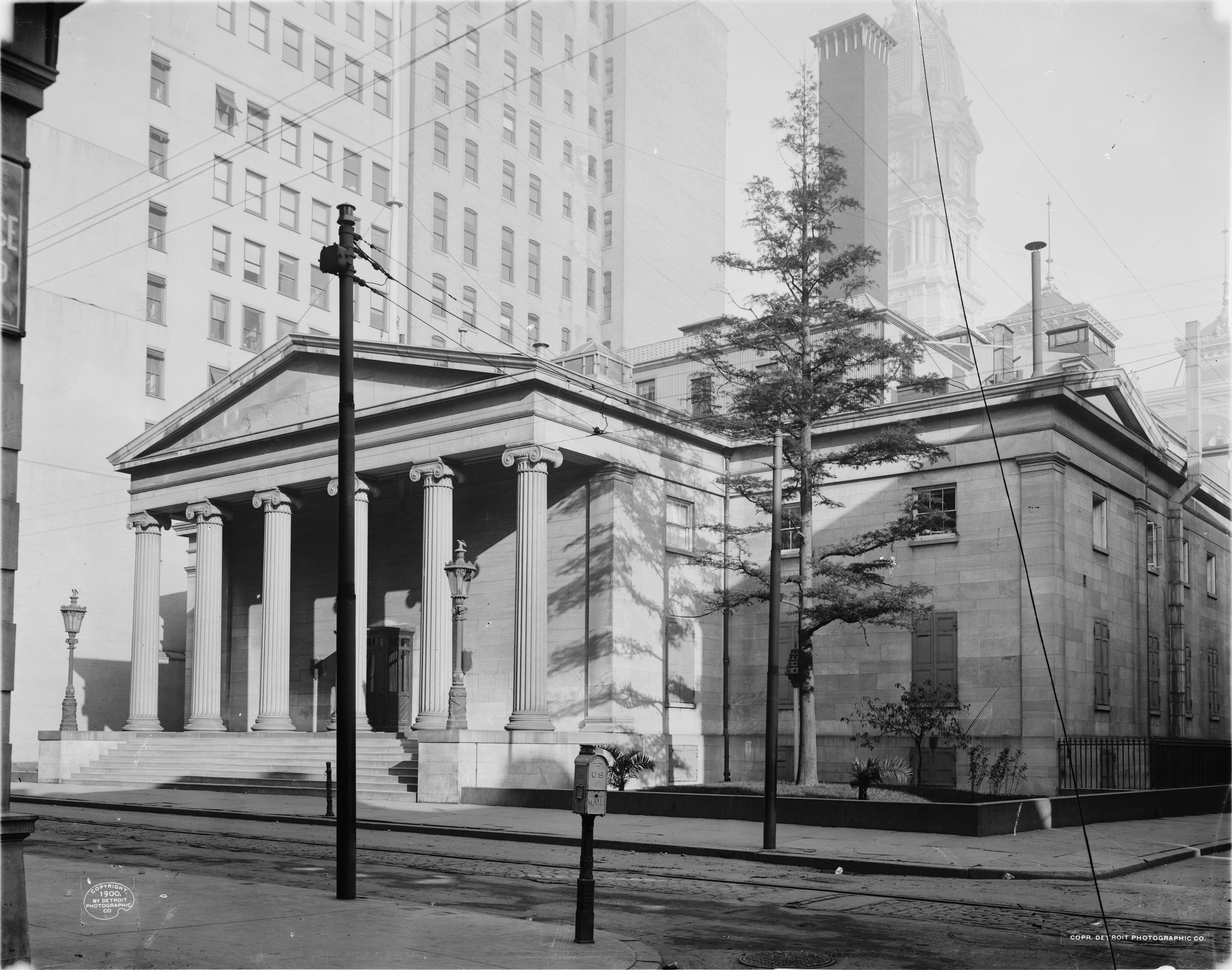 Second Philadelphia Mint, NW corner Chestnut & Juniper Streets, Philadelphia, Pennsylvania (built 1829-33, demolished 1902), William Strickland, architect. Now the site of the Widener Building.